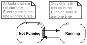 Running and Not Running states of FreeRTOS tasks